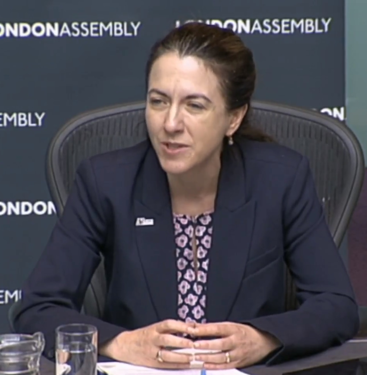 The Transport Committee will explore the potential scale, benefits and risks of using drone and droid technology for deliveries in London. The Committee will also consider how well Transport for London is coping with the emergence of new technology in the transport sector. The guests are: First panel – 10.00am to approx. 11.00am Henry Harris-Burland, Vice-President for Marketing, Starship Technologies Professor Alan McKinnon (via Skype), Keuhne Logistics University, Hamburg Tony Henley, Royal Aeronautical Society (RAeS) Second panel – from approx. 11.00 am Michael Hurwitz, Director of Transport Innovation, TfL Lauren Sager Weinstein, Chief Data Officer, TfL